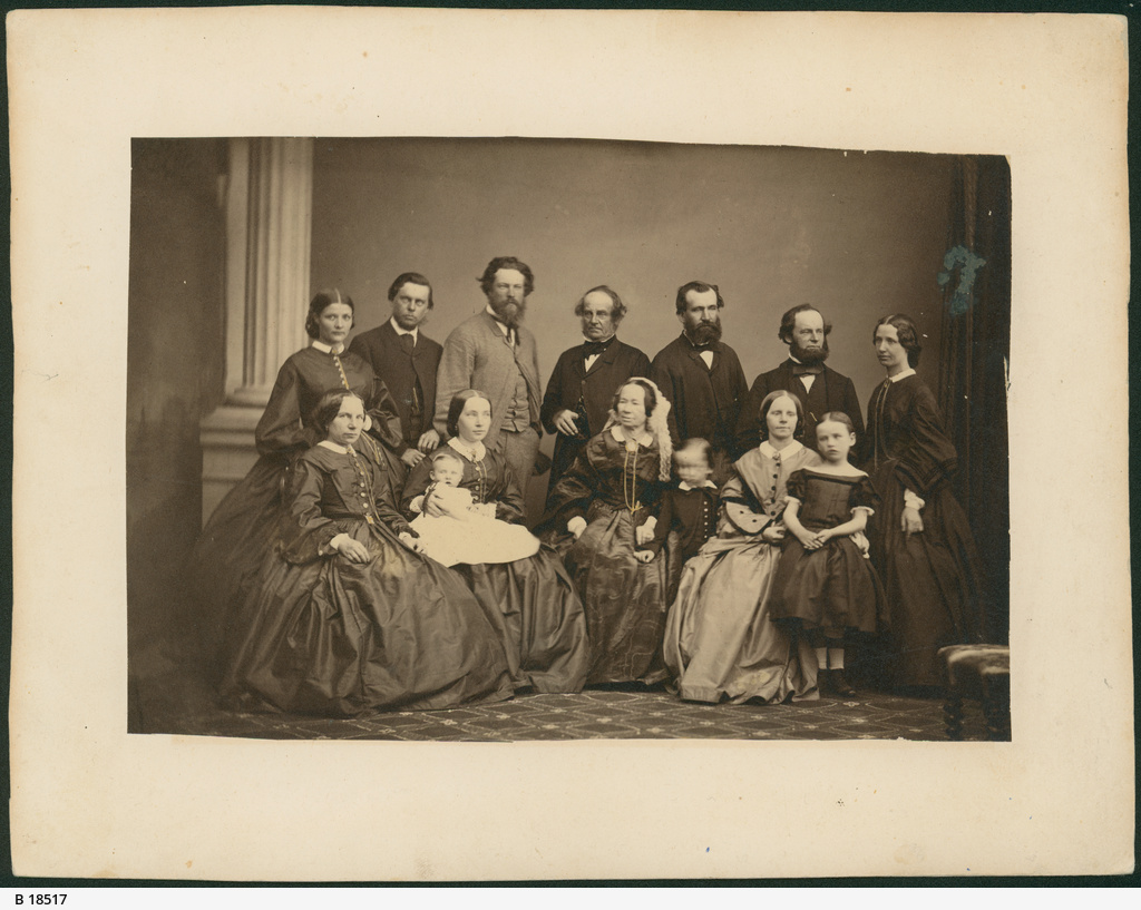 Four Generations of the Mildred Family; April 1864. Back row, left to right: Louisa Rachel Mildred, nee Montgomery, born 2 July 1842, married 29 July 1864, died 16 April 1908; Henry Hay Mildred, born 17 August 1839, married 29 July 1863, died 25 December 1920; Henry Charles Swan, born 8 June 1834, married 23 January 1862, died 26 July 1908; Henry Richard Mildred, born 9 March 1795, married 4 November 1820, died 22 March 1877; John Varley, born 22 October 1830, married 15 April 1854, died 9 June 1887; Hiram Telemachus Mildred, born 28 April 1823, married 9 February 1864, died 21 August 1892; Susanna Mildred, nee Cheetham, born 19 October 1841, married 9 February 1864, died 29 January 1879. Front row, left to right: Clarissa Martha Margaret Hay, nee Mildred, born 22 September 1821, married 23 April 1840, died 19 November 1870; Sophia Elizabeth Swan, nee Hay, born 11 February 1841, married 23 January 1862, died 16 April 1916; sitting on Sophia's lap, Henry Charles Swan jnr., born 6 August 1863, died 16 August 1871; Elizabeth Sarah Mildred, nee Bowyer, born 30 November 1798, married 4 November 1820, died 3 February 1869; Hiram Wentworth Varley, born 6 May 1859, married 2 February 1889, died 28 March 1927; Urania Harriet Varley, nee Mildred, born 30 December 1824, married 15 April 1854, died 30 August 1896; Alice Matilda Bowyer Varley, born 2 July 1857, married 29 September 1880, died 27 May 1931. For more information about the Mildred Family see Biographical Notes 1047/266